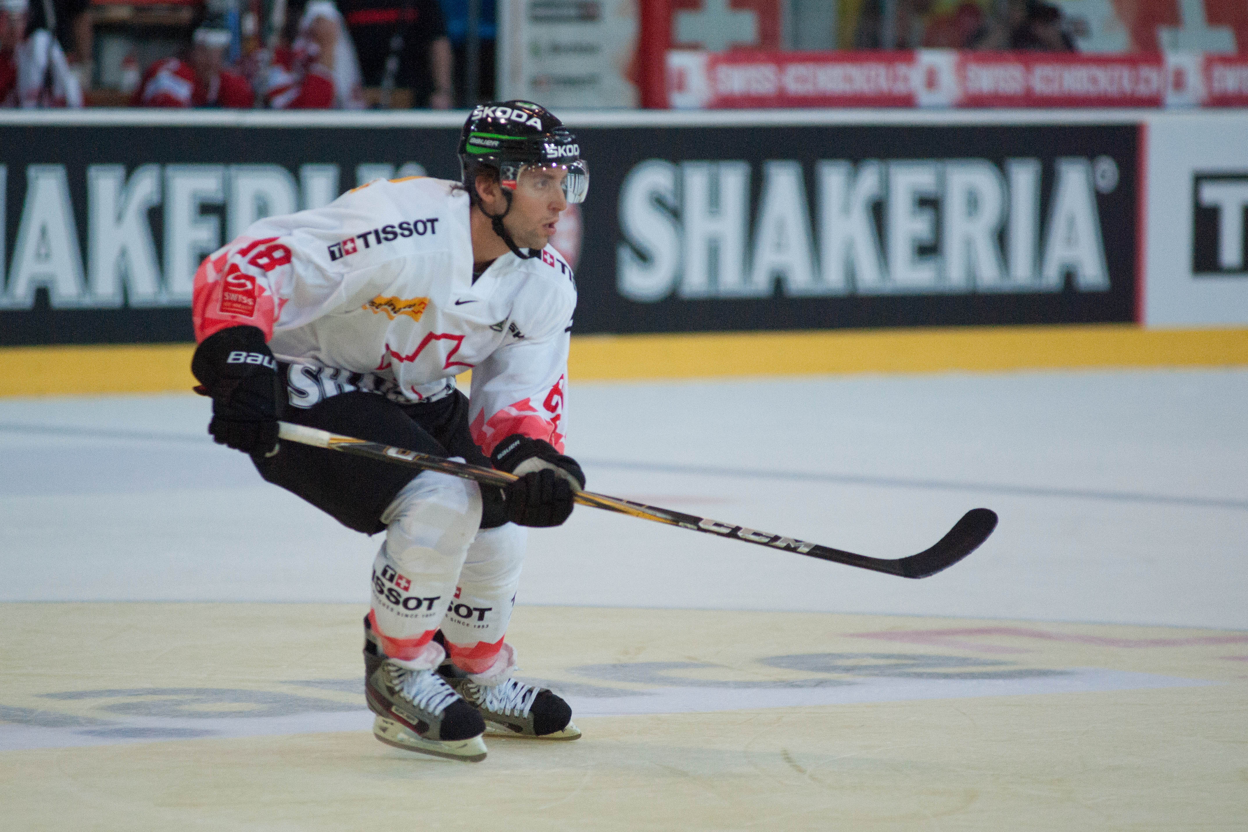 Switzerland vs. Canada, 29th April 2012